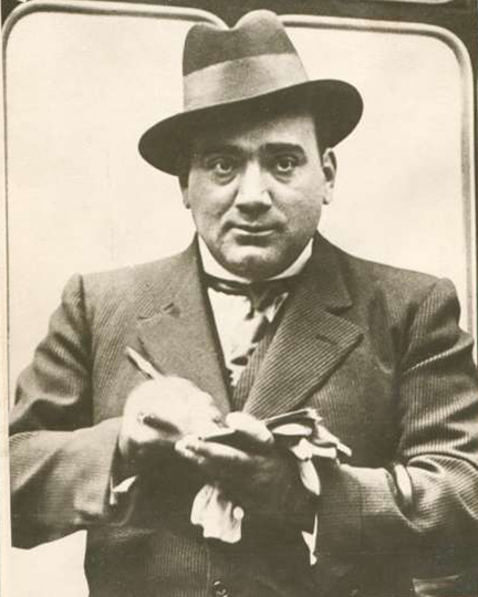 Enrico Caruso signing his autograph. He died in 1921, therefor any copyrights would be expired.